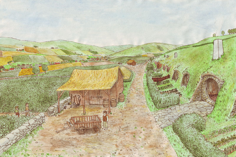 The village Longbottom in the southfarthing of the Shire